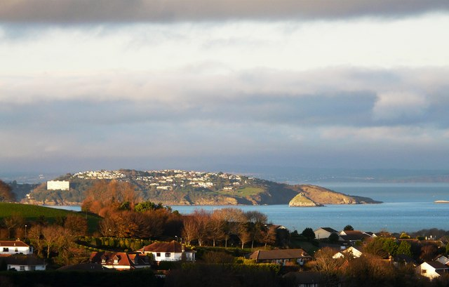 King's Barton area, Thatcher Rock and Ilsham, Torquay across Torbay This image was taken from the Hillhead area over the Guzzle Down area of Brixham. The King's Barton area of Brixham is in the foreground with the Ilsham area of Torquay across the other side of Torbay. The Ore Stone is at the extreme right of the picture. The extreme point of the mainland across the bay is Hope's Nose and in front of that is Thatcher Rock.